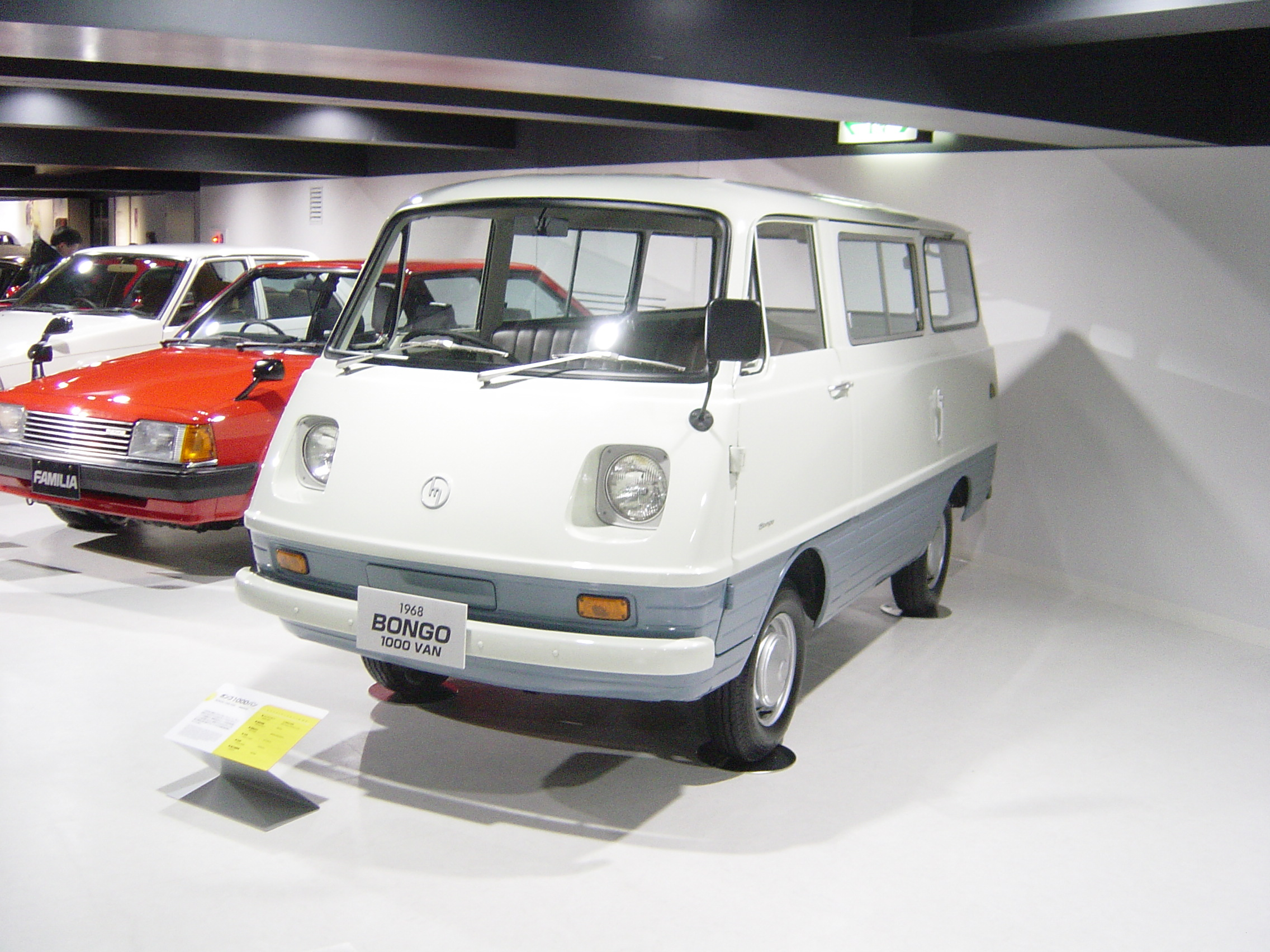 First-generation Mazda Bongo